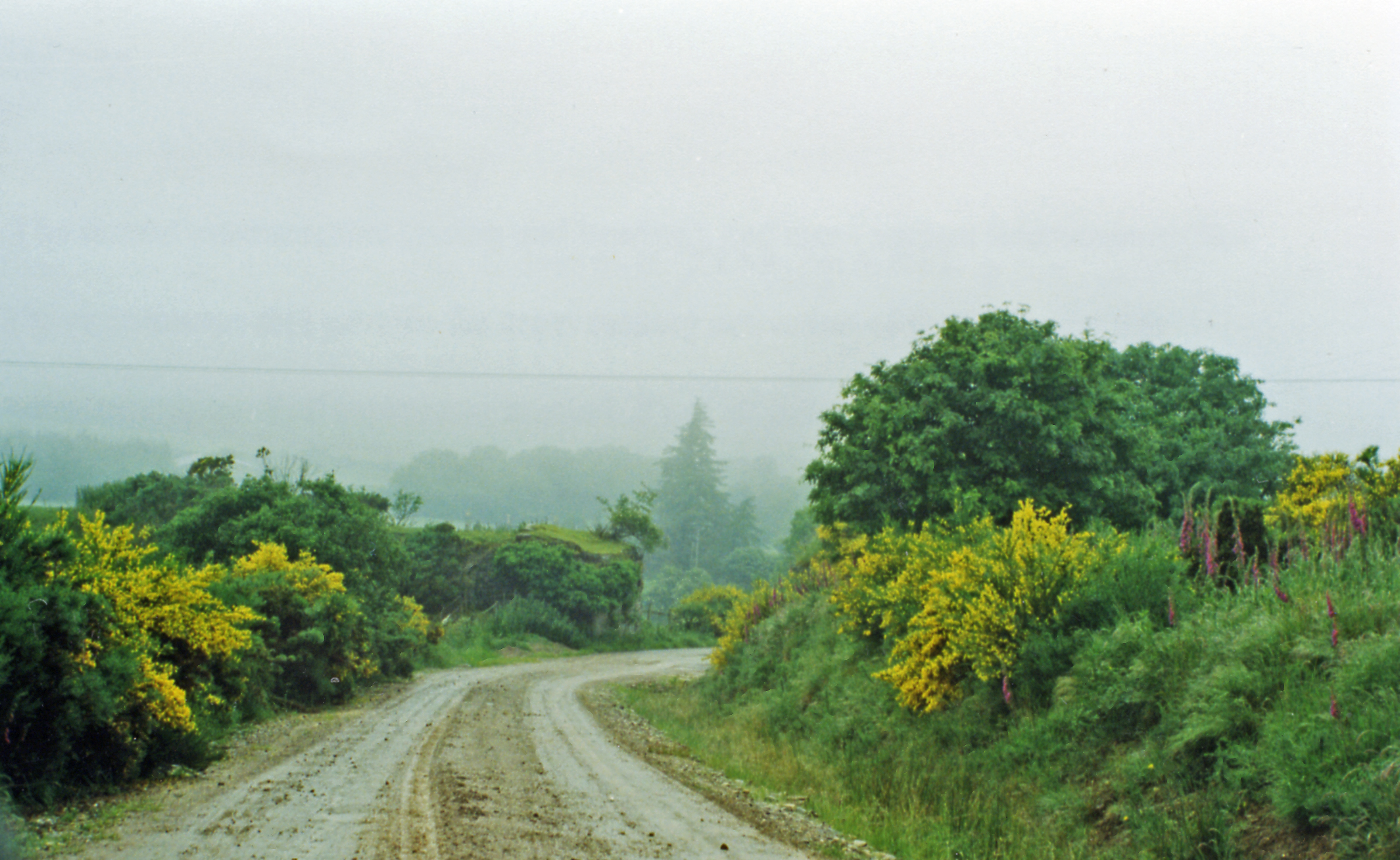 Approaching site of Enzie station in Burn of Tynet valley. Believe it or not, a branch of the Highland Railway was built in 1885 along this valley from Keith to Portessie, on the border bwetween Morayshire and Banffshire. It carried no traffic after August 1915, but the line was not taken up until 1937. So I had to take this photograph, in the pouring rain in the back of nowhere.